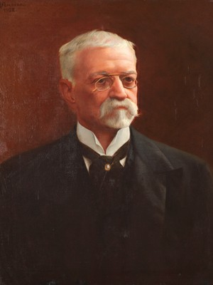 Depicted person: Afonso Pena